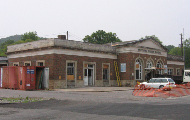 Exterior of Amtrak station in Anniston, AL being restored.